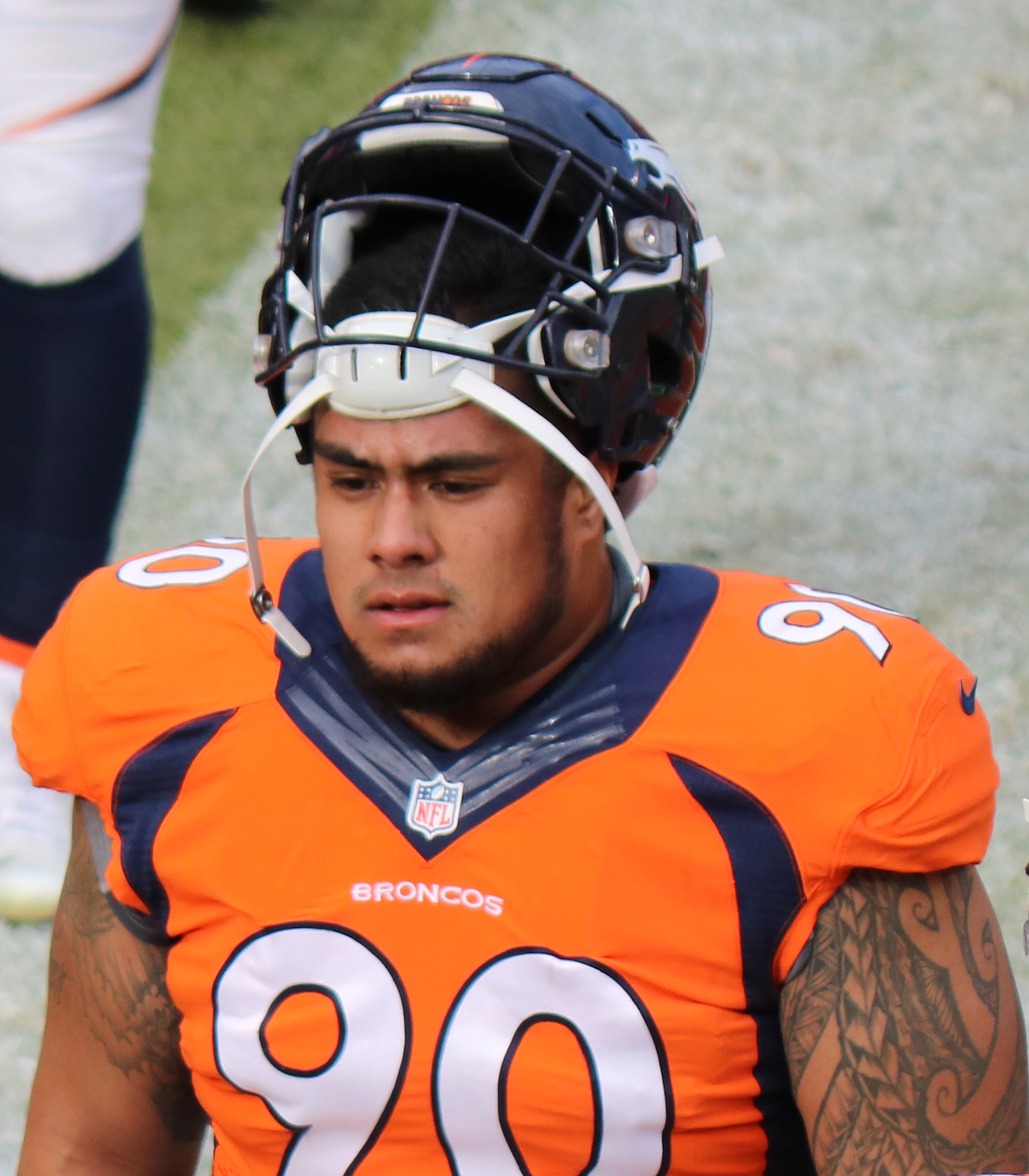 Kyle Peko, a player on the National Football League.